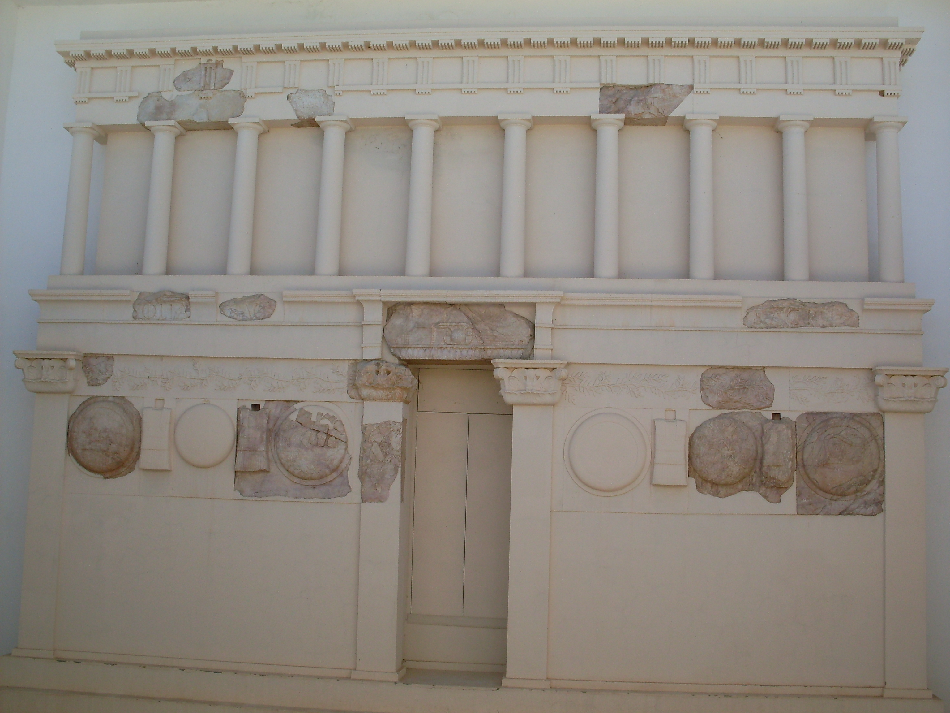 The Royal Numidian Altar, Archaeological museum of Chemtou, Chemtou, Tunisia